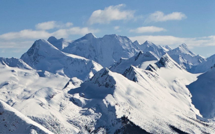 Mount Dawson of Selkirk Mountains seen from north